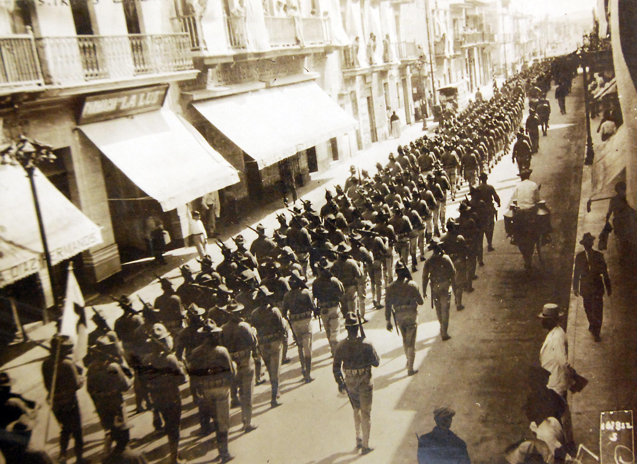 Lot-10907-1: Veracruz Intervention, April 1914. U.S. Troops enter Veracruz, Mexico. George Grantham Bain Collection. Courtesy of the Library of Congress. (2016/05/27).